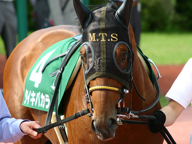 Taiki Baccarat